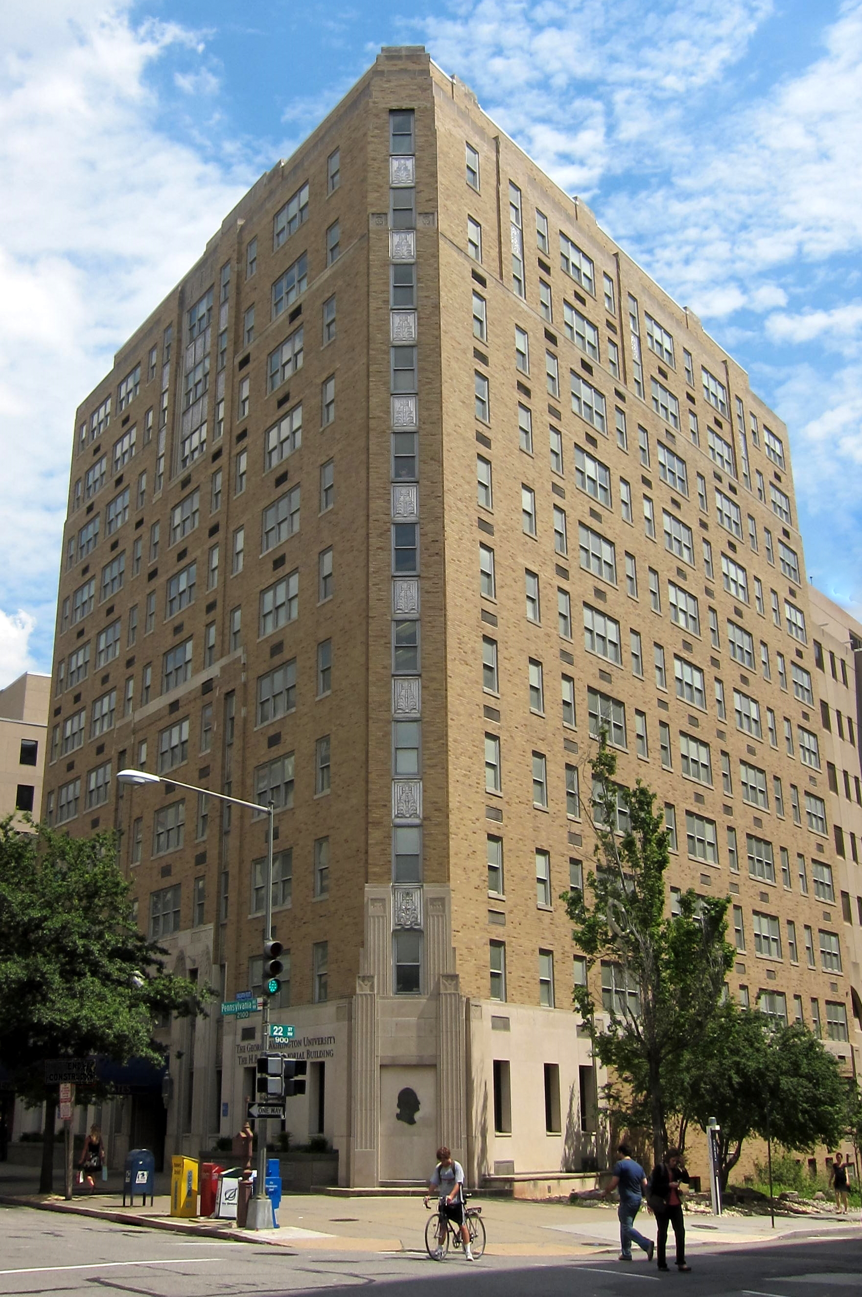 The H. B. Burns Memorial Building located on the corner of 22nd Street and Pennsylvania Avenue, N.W., in the Foggy Bottom neighborhood of Washington, D.C. Built in 1931 to the designs of architect Robert O. Scholz, the Art Deco medical office building originally served as the Keystone Apartments.